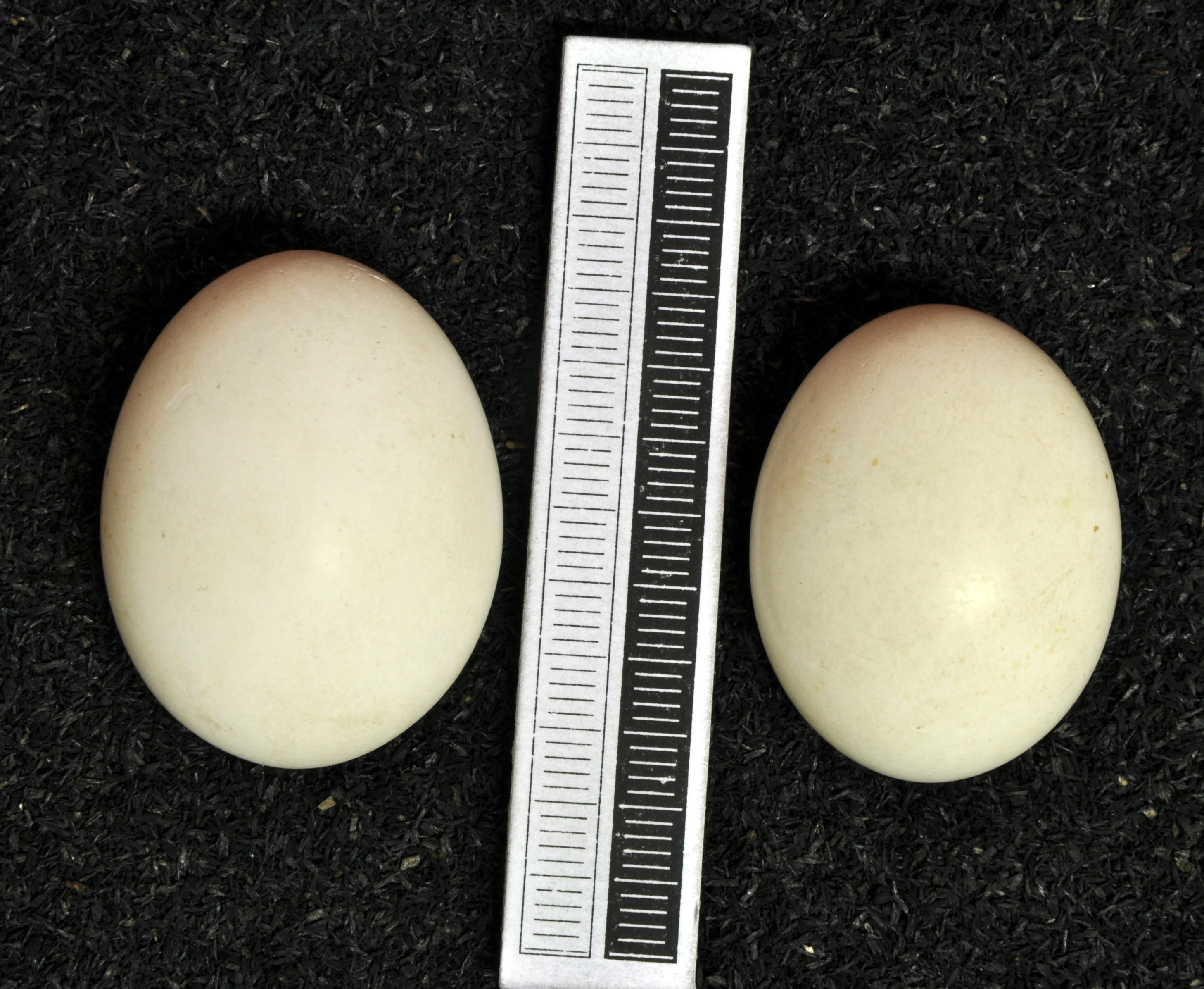 Speckled pigeon Columba guinea , egg, Coll. Museum Wiesbaden